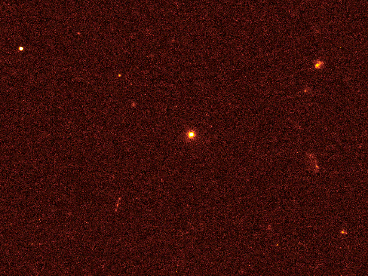 NASA's Hubble Space Telescope has pinpointed the source of one of the most puzzling blasts of high-energy radiation ever observed. It is at the very center of a small, distant galaxy, which appears to be sending a beam of radiation directly toward Earth. The 3.8-billion-light-year-distant galaxy appears as a bright blob at the center of the Hubble picture. This observation may support the idea that a supermassive black hole at the core of the galaxy has gravitationally torn apart and swallowed a bypassing star. As the star's gas falls onto the black hole, radiation is ejected along a narrow beam. On March 28, 2011, NASA's Swift satellite, which looks for transient X-rays and gamma rays, detected the first of a string of powerful bursts of high-energy radiation that has lasted for a week. More Hubble observations are planned to see if the core changes brightness. An armada of ground- and space-based telescopes is also watching the object from X-ray through radio wavelengths. The Hubble observations were taken in visible and near-infrared light on April 4, 2011, with the Wide Field Camera 3. This Hubble image was taken in visible light.